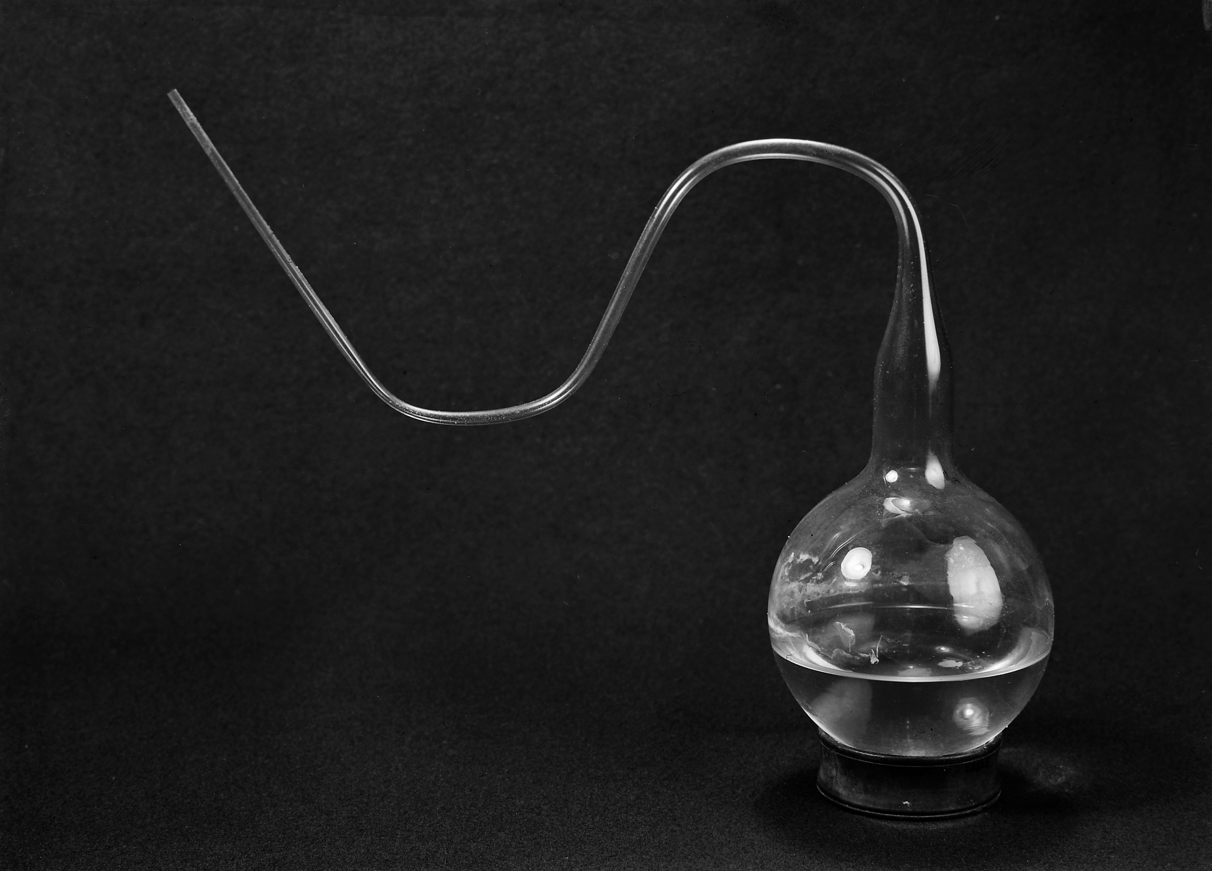 Swan-necked flask used by Pasteur in his experiments to disprove the doctrine of spontaneous generation. Wellcome Images Keywords: Bacteriology; Louis Pasteur